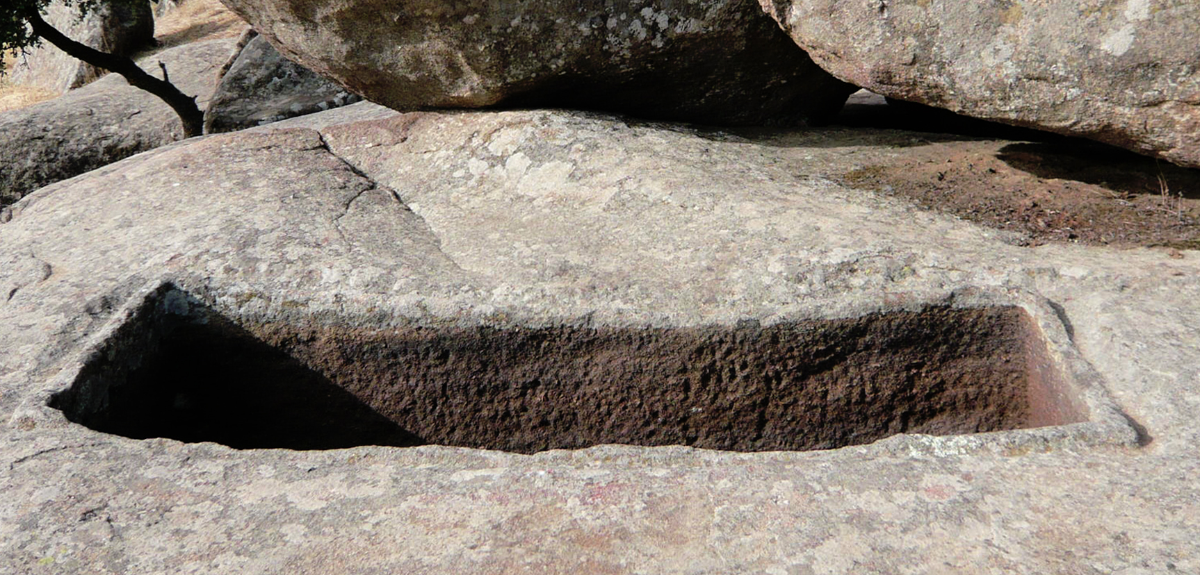 Tomb excavated in the rock, near the Pusa River. Los Navalucillos, Toledo, Castile-La Mancha, Spain